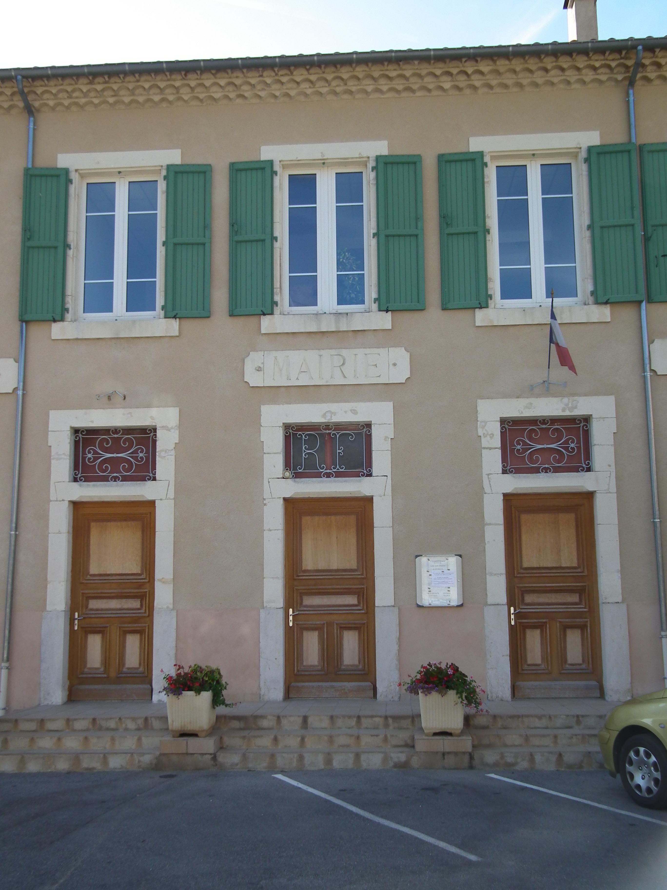 Town hall of Vaunaveys-la-Rochette - Drôme - France